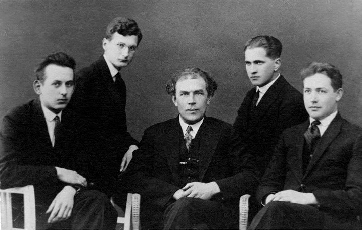 Group portrait of Estonian composers (left to right) Eduard Tubin (1905–1982), Olav Roots (1910–1974), Heino Eller (1887–1970), Karl Leichter (1902–1987) and Alfred Karindi (1901–1969) from the Tartu school of composition.